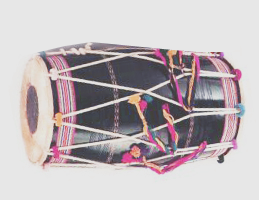 Dhol, Common Musical instrument of Bangladesh